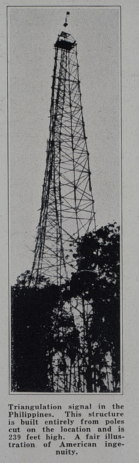 239-foot tower built on Bugsuk Island in southwest Philippines. This tower was built completely from native timber cut on location. It took 19 men off the PATHFINDER three weeks to build this signal. This was the largest wooden tower ever built by the C&GS. Used for both observing and as a signal. Philippine Islands.